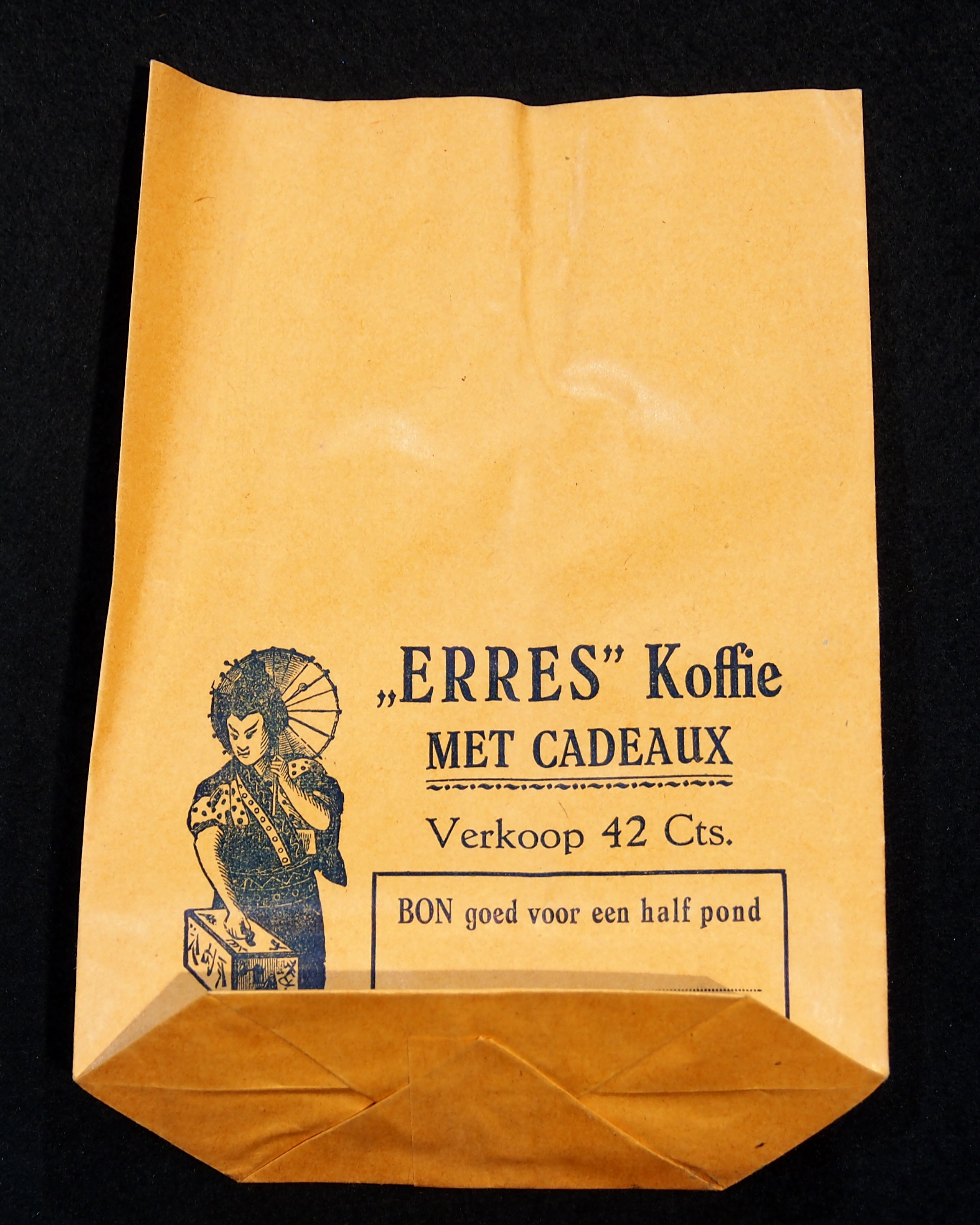 Very old packaging of a Dutch product that is not produced and/or not sold any more.